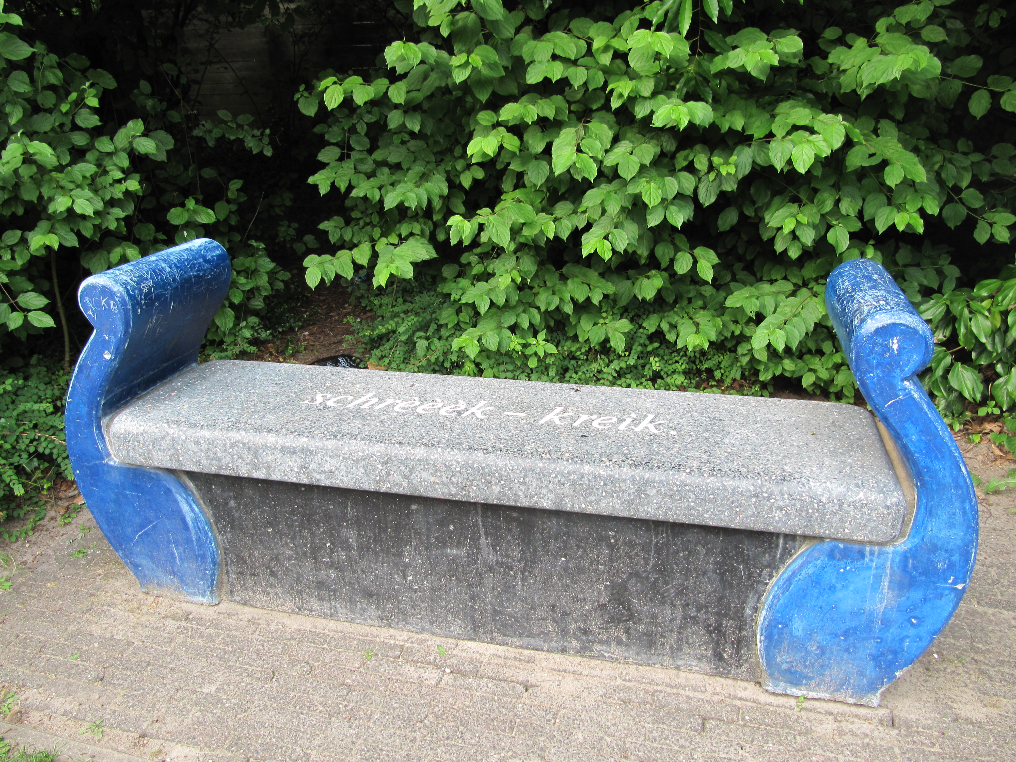 Bench "Onomatopee" by Nicolas Dings in the rosarium of park Randenbroek in Amersfoort, The Netherlands